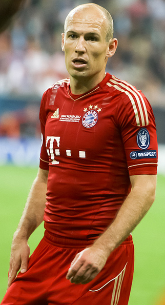 UEFA Champions League Final. FC Bayern München 1-1 Chelsea FC (aet, Chelsea win 4-3 on penalties)